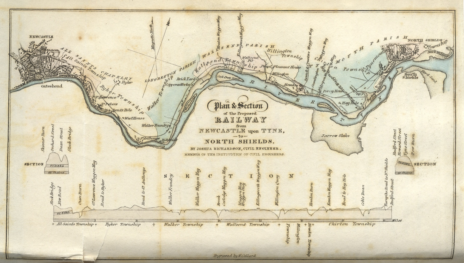 Map engraved by W Collard within 1834 Newcastle to North Shields Railway report, an 80 page pamphlet. The original from which this has been scanned is in the North of England Institute of Mining and Mechanical Engineers. It is reference Tracts vol 57 p298. The scan and the upload to Wiki Commons have been made with the permission and direction of their librarian Jennifer Kelly.